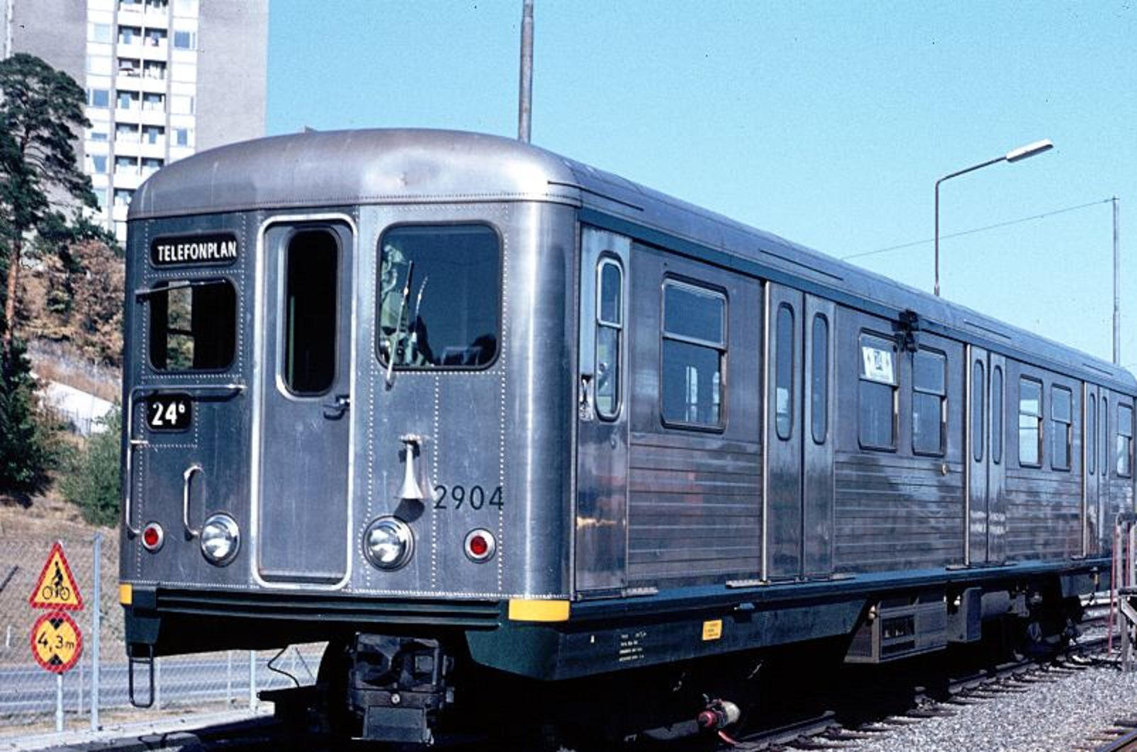 A Picture of The C5/Silverpilen (The Silver Arrow)